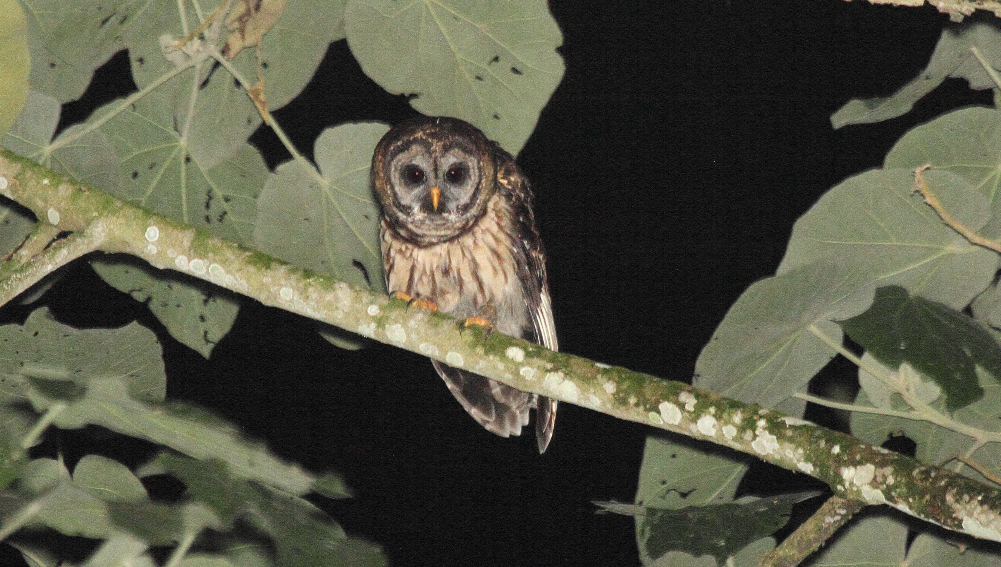 Fulvous Owl (Strix fulvescens)